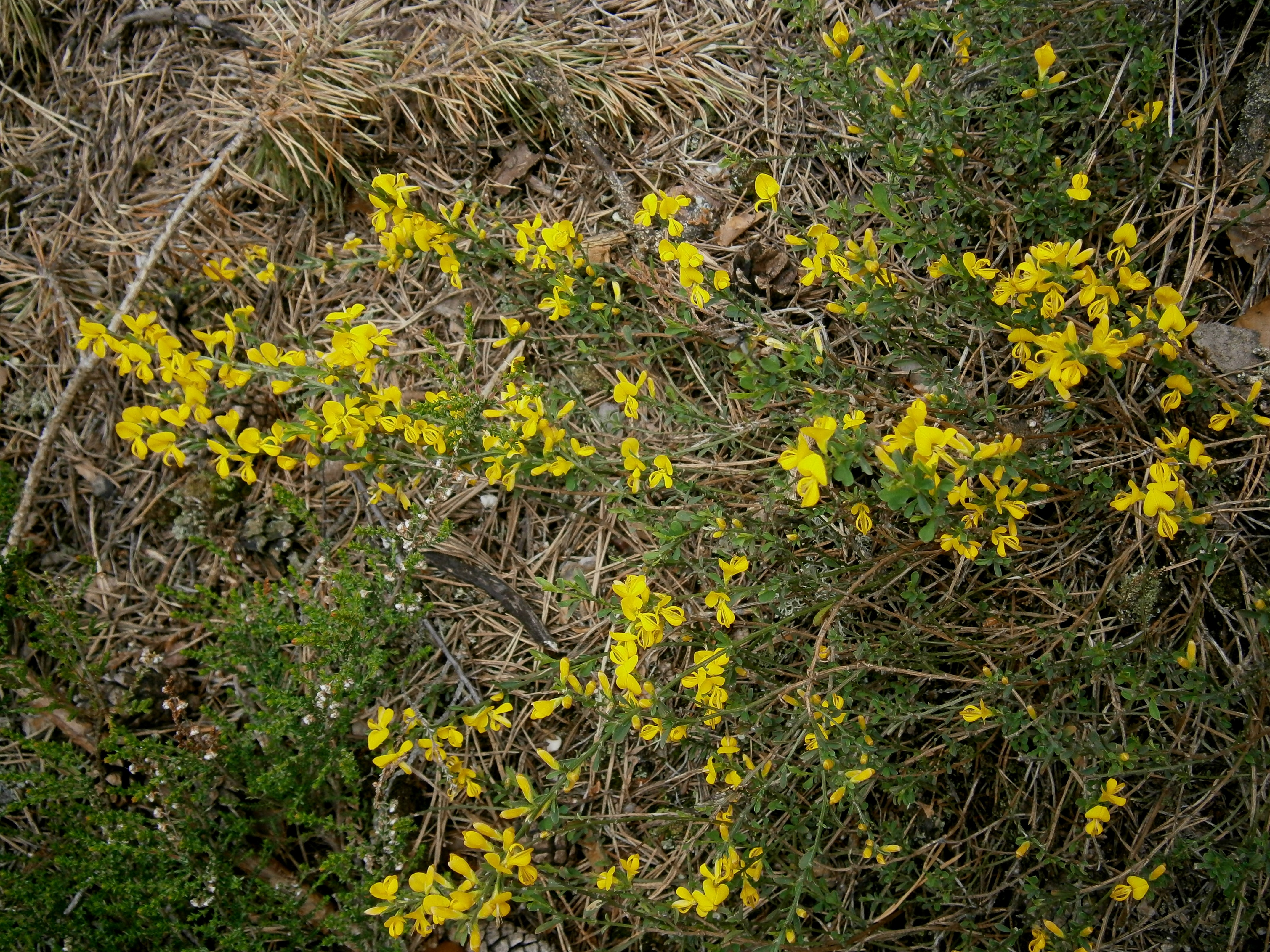 Genista pilosa